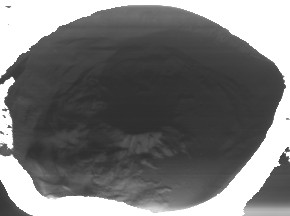 Oblique view of the interior of Fuller crater on Mercury. Broadband Wide Angle Camera, relying on reflected light off the north wall to illuminate the permanently shadowed area to the south (top), where radar-bright material suspected to be water ice is located. Emission Angle: 39.2 Incidence Angle: 86.7 Latitude: 82.4 Longitude: 316.9 Phase Angle: 125.9